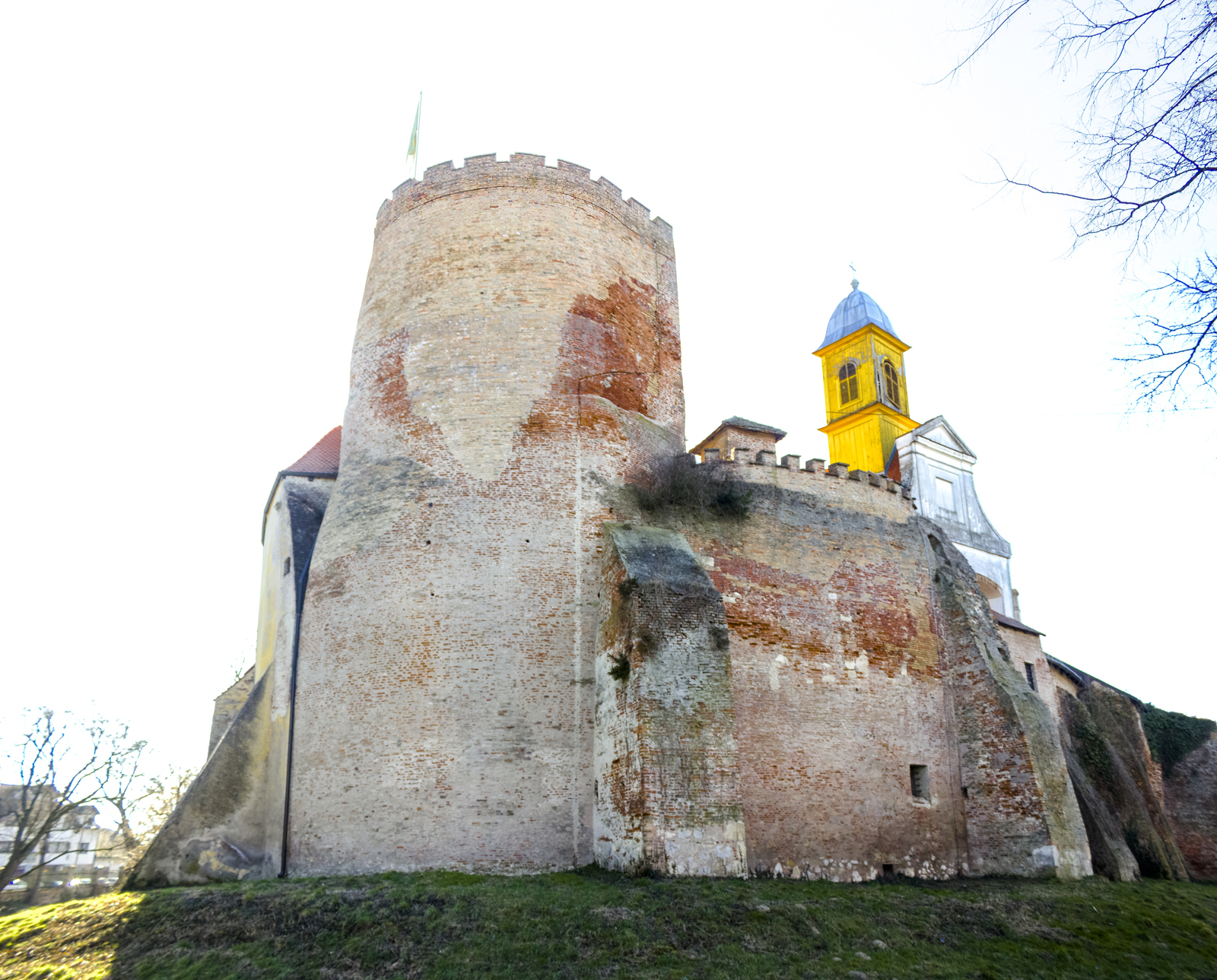 Prandau-Normann castle Valpovo